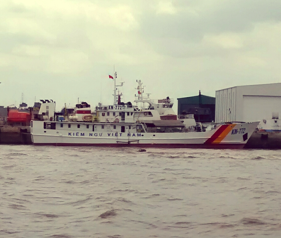 A vessel of Vietnam Fisheries Resources SurveillanceTiếng Việt: Một chiếc tàu do Kiểm ngư Việt Nam quản lý